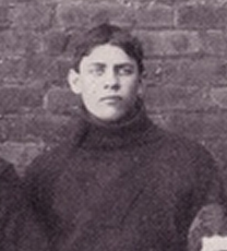 W. A. Martin, Virginia Cavaliers